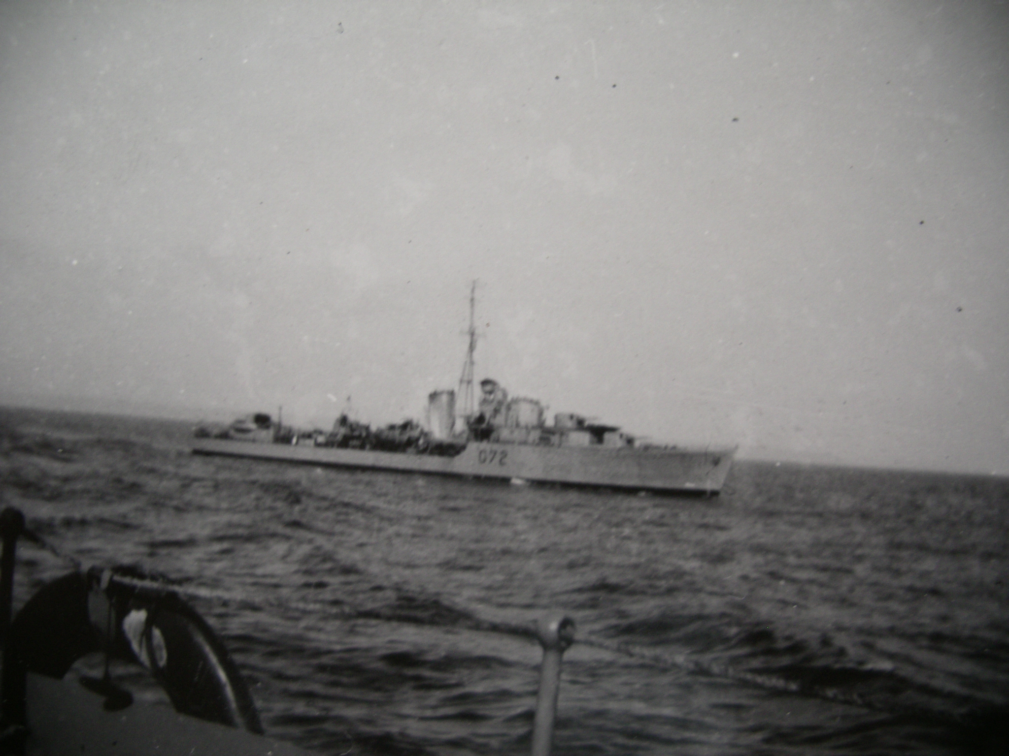 HMS Jersey (G72)